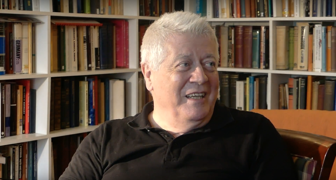 This photograph was taken by a member of the Sewell-Hohler Syndicate in June 2018 during a discussion between Professor Alan Sked and Shayan Barjesteh van Waalwijk van Doorn.